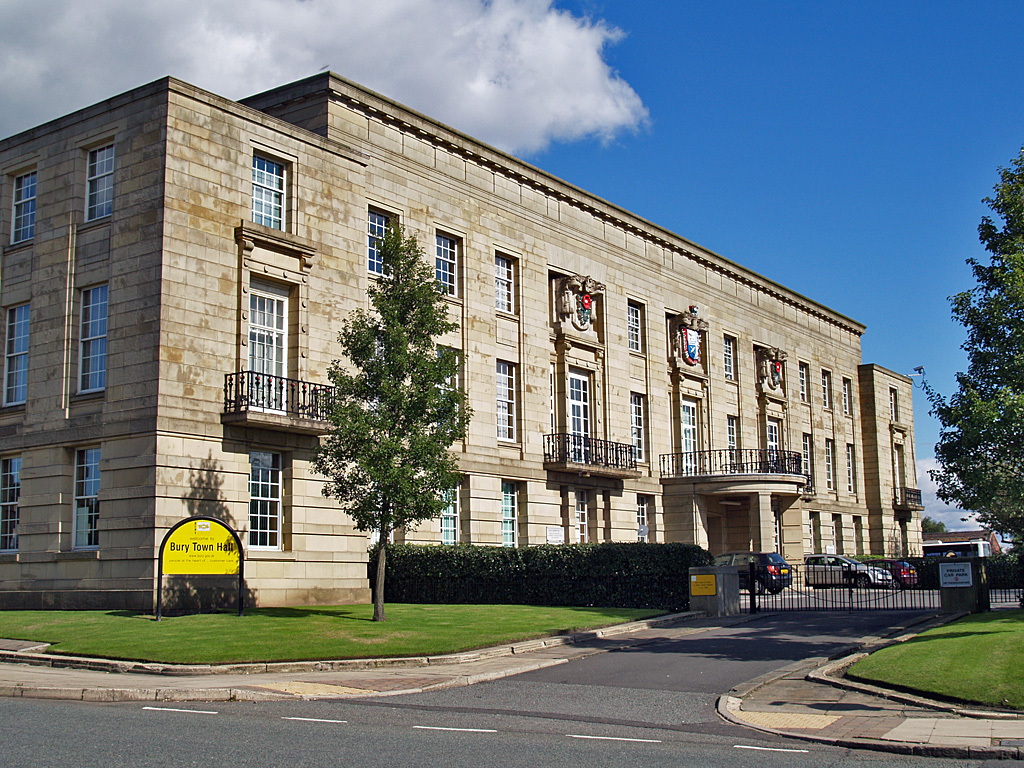 Ceremonial entrance of Bury Town Hall in Bury, Greater Manchester, England.